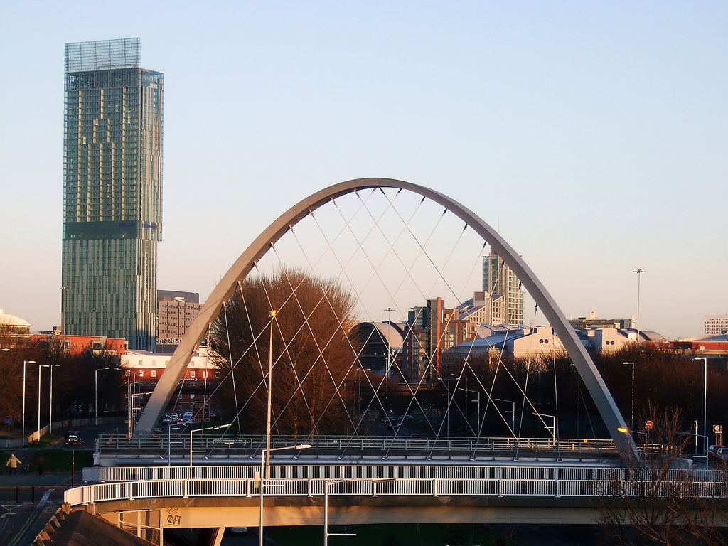 The Hulme Arch (with the Beetham Tower in the background) in the Hulme area of Manchester, England.